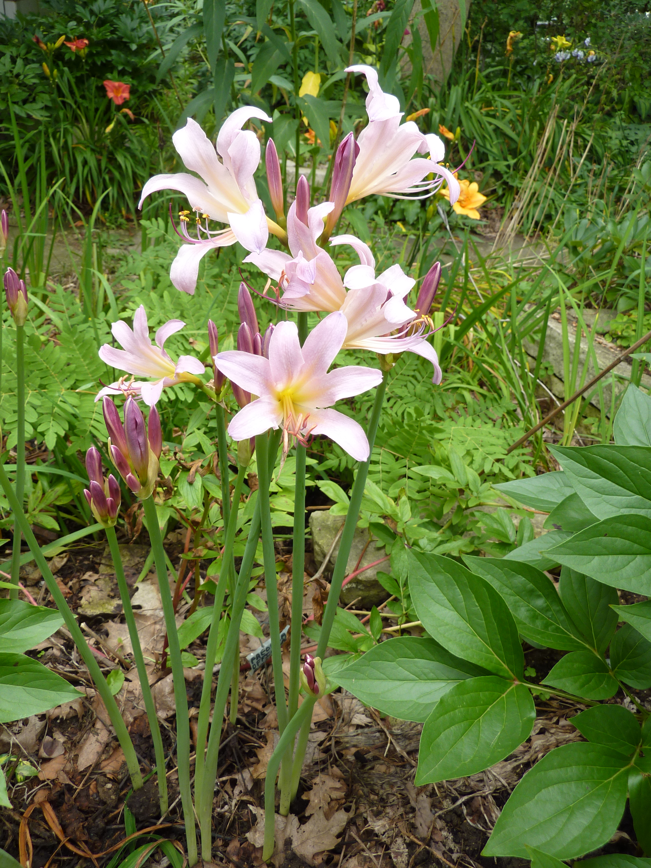 Lycoris squamigera flowering in the garden of botanist Robert R. Kowal in Madison, Wisconsin, USA.